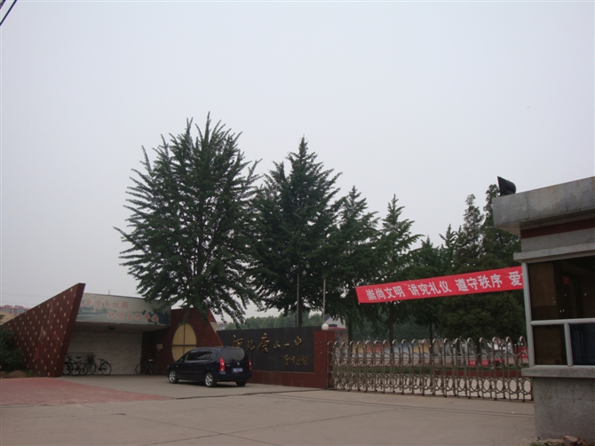 In Tangshan, Hebei